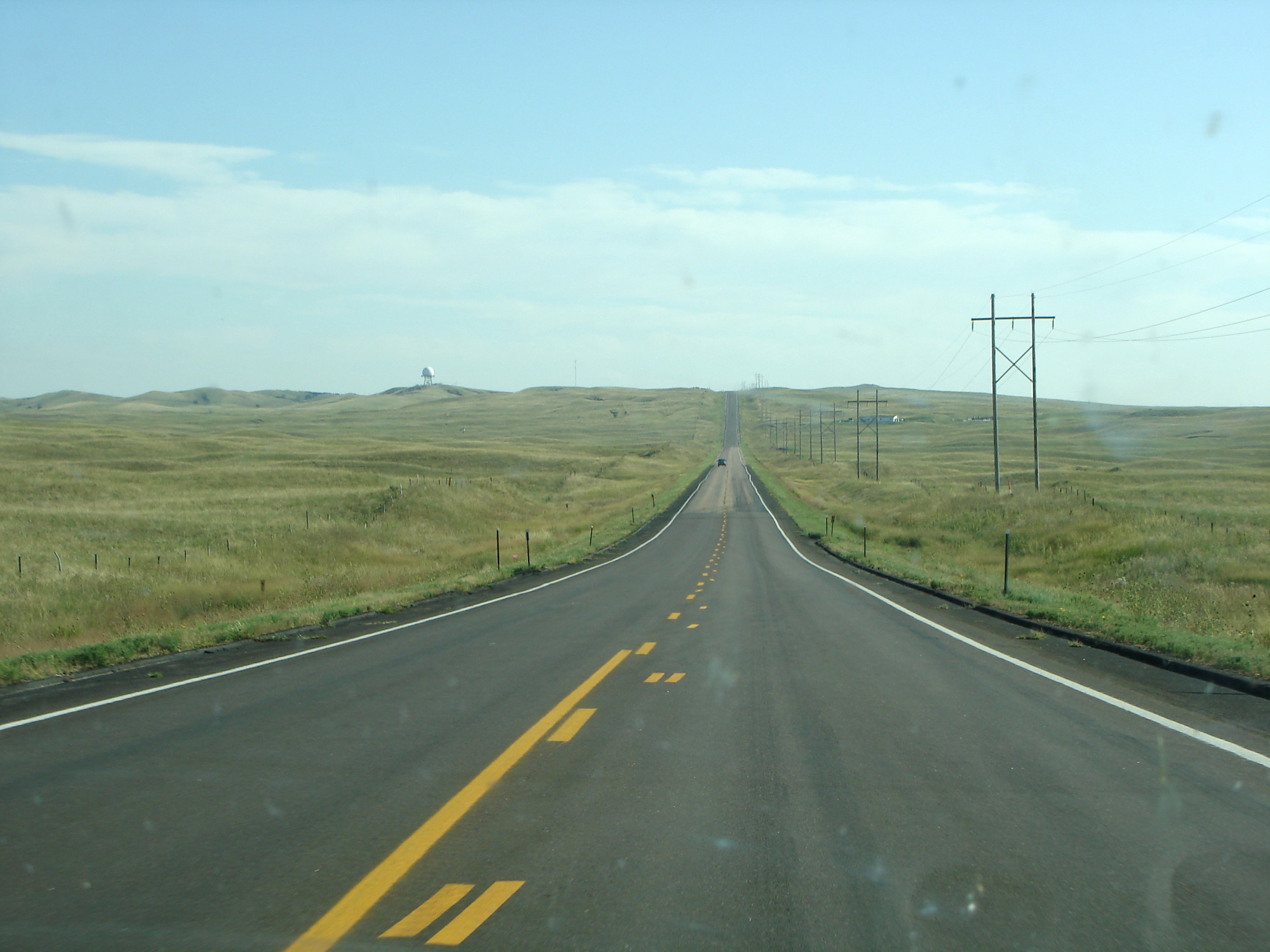 Highway 83 in Lincoln County, Nebraska, United States